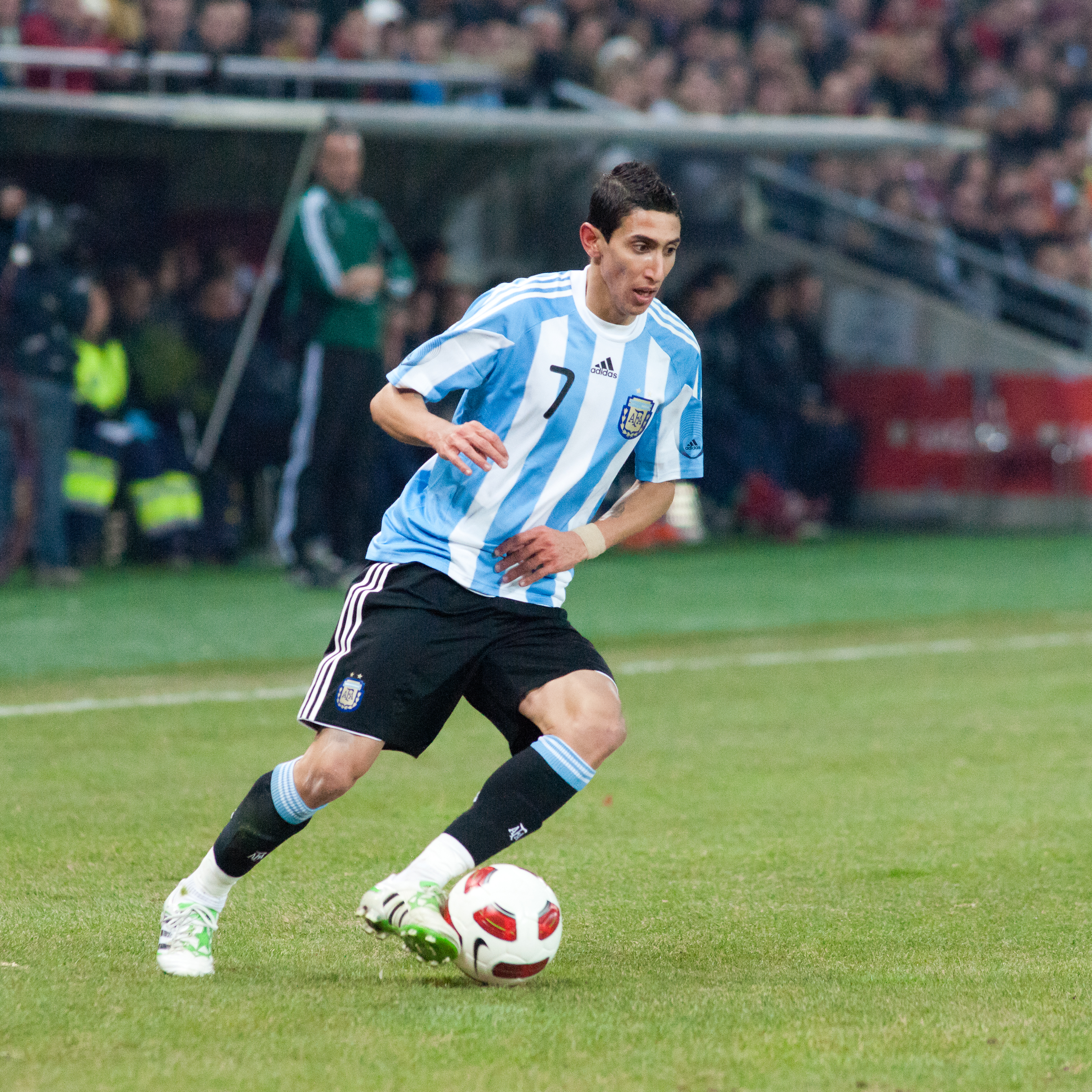 The making of this document was supported by Wikimedia CH. (Submit your project!) For all the files concerned, please see the category Supported by Wikimedia CH. Portugal vs. Argentina, 9th February 2011